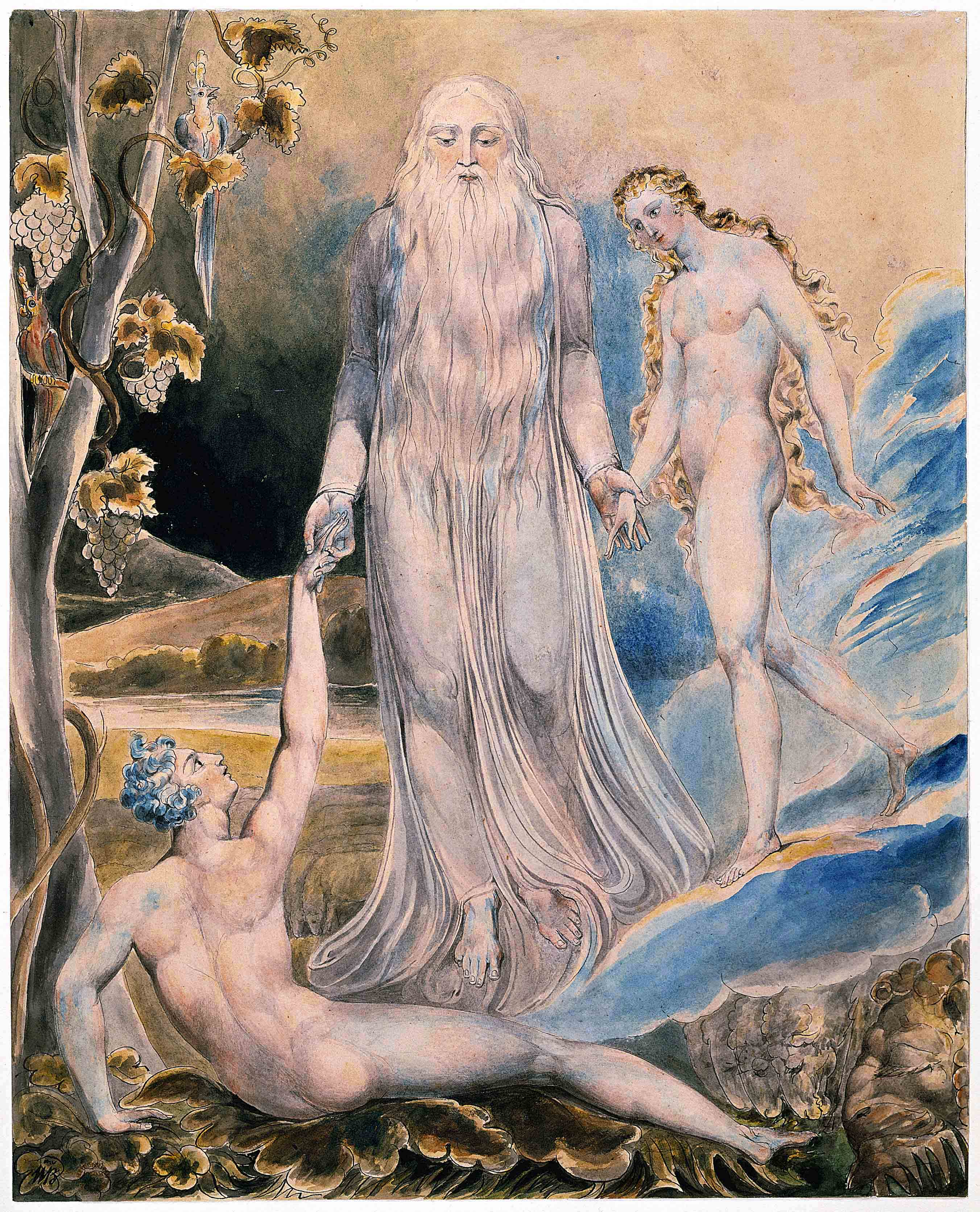 The Creation of Eve: "And She Shall Be Called Woman", object 1 (Butlin 435) "The Creation of Eve: "And She Shall Be Called Woman""